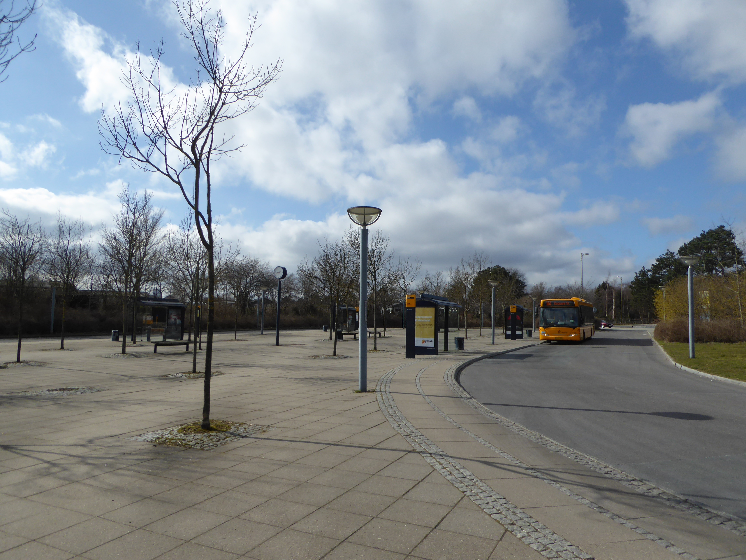 The bus station Gladsaxe Trafikplads in Gladsaxe in Copenhagen.